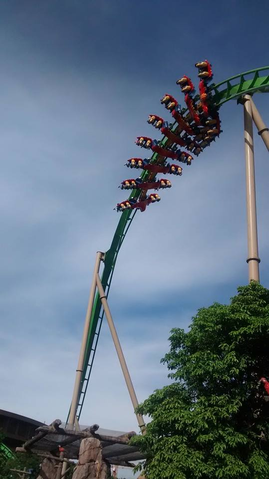 Zero-G Roll